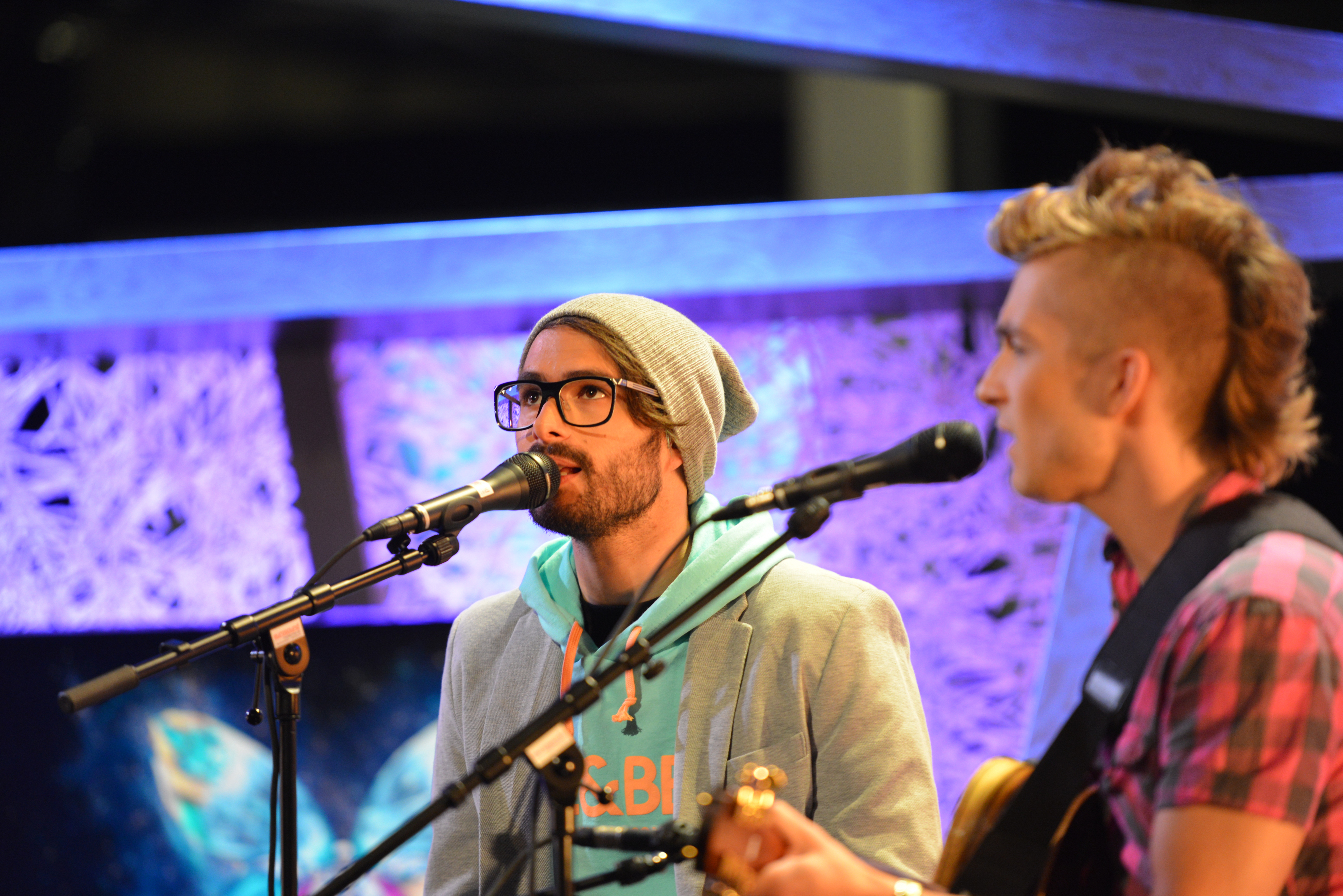 Hungarian artist ByeAlex rehearsing his Eurovision song Kedvesem in the Swedish TV-show "Studio Eurovision" inside the press centre of the Eurovision Song Contest 2013.